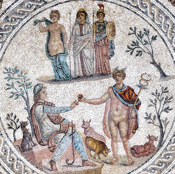 Detail of the Judgement of Paris in the Mosaic of the Amores, in Cástulo (Linares, Jaén) Featuring Aphrodite, Hera, and Athena above and below Paris receiving the apple from Hermes.